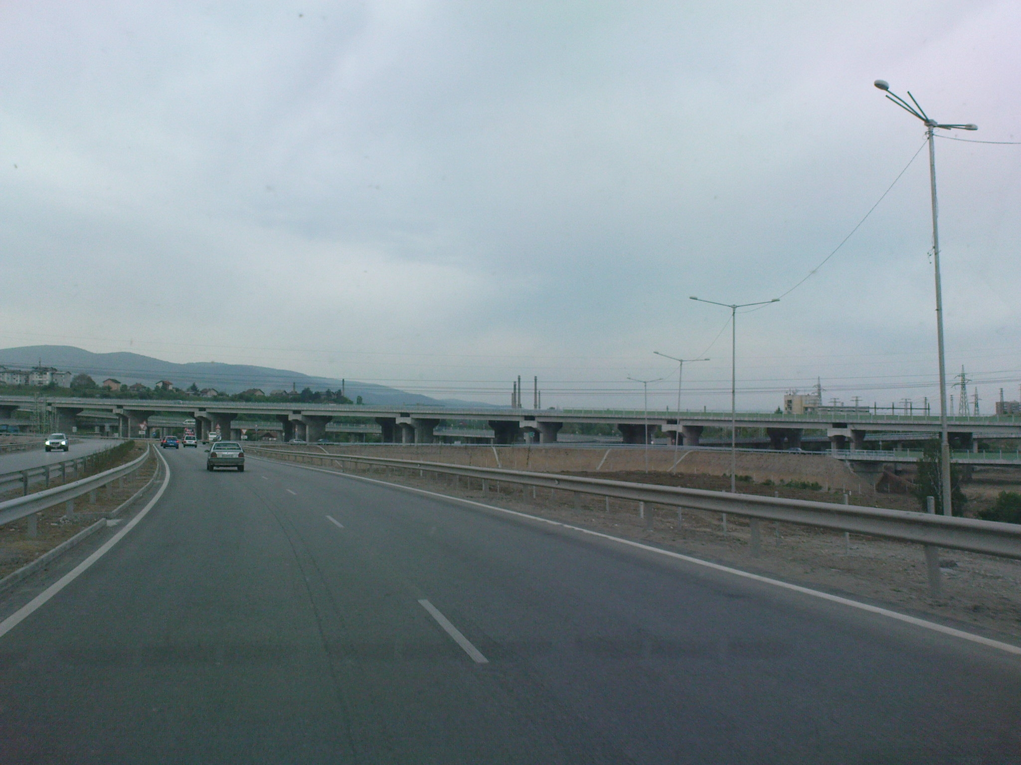 Lyulin motorway, entrance from Dragichevo